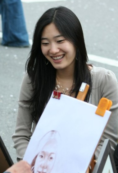 Woman in Seoul, South Korea